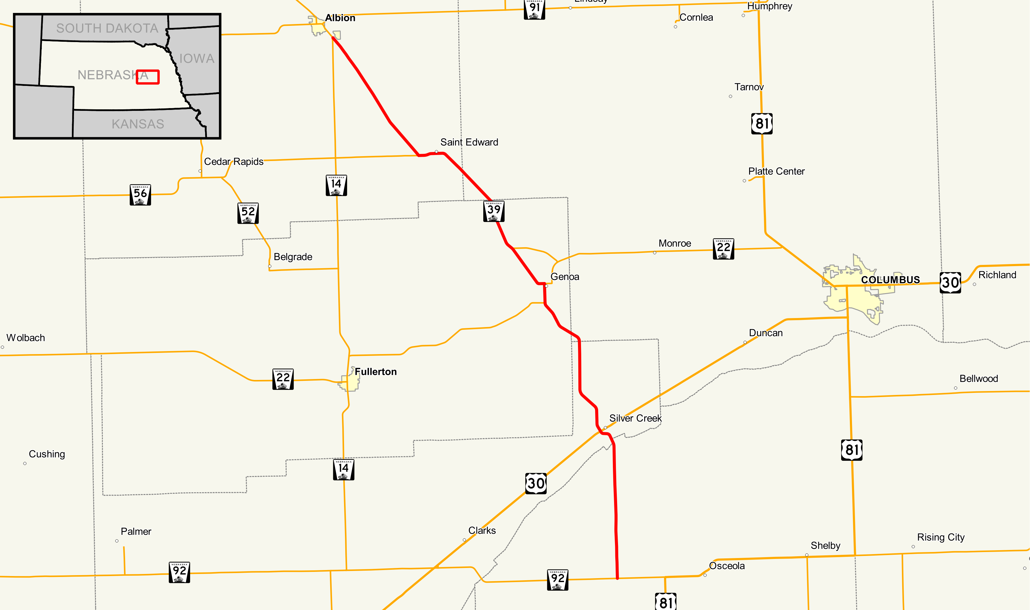 Map of Nebraska Highway 39 Data Sources: Nebraska Highways - - Dec 2016 Nebraska County Boundaries - - Dec 2016 Nebraska City Boundaries - - Dec 2016 This PNG graphic was created with QGIS